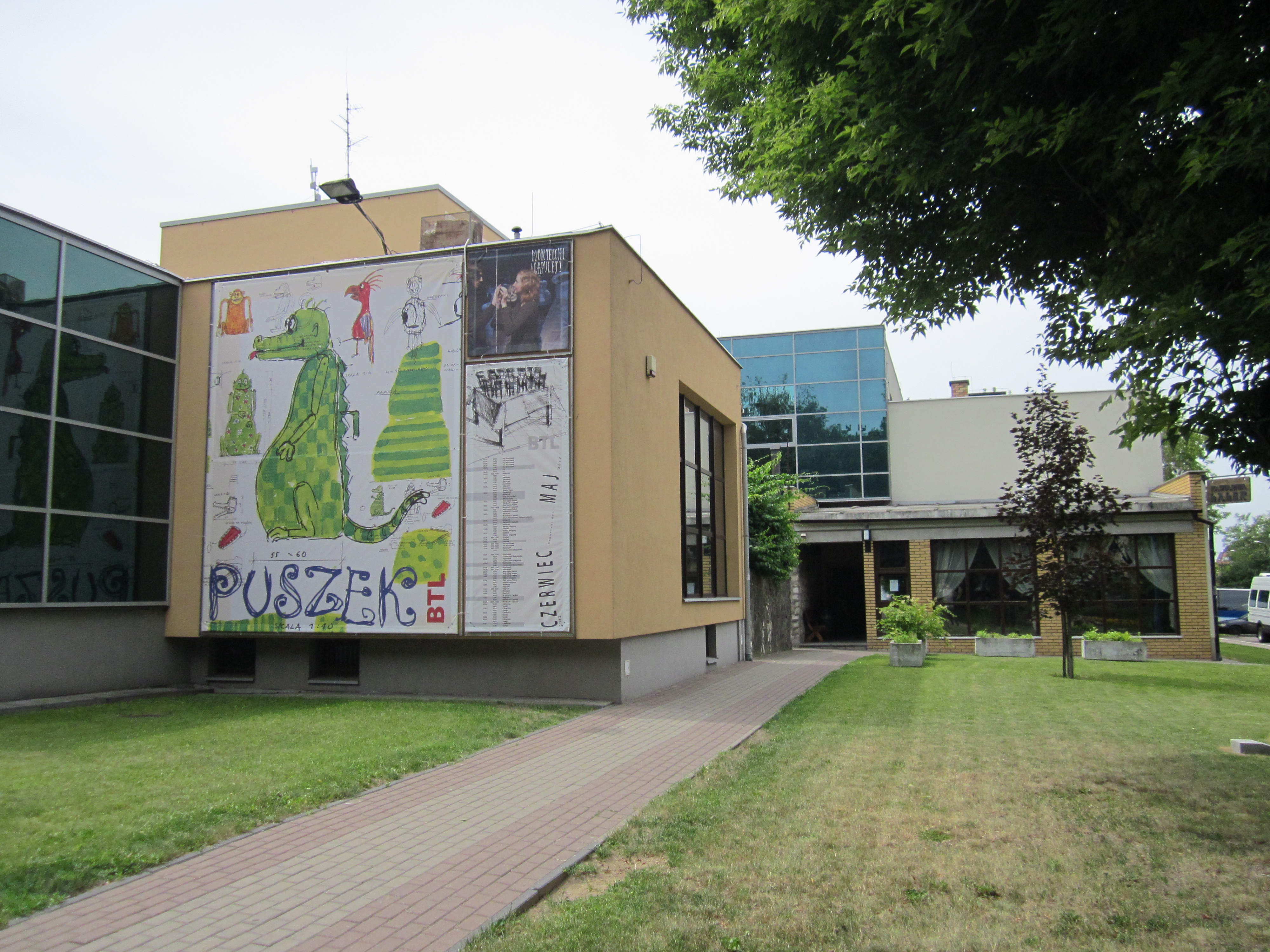 Puppet Theatre in Białystok, Kalinowskiego 1, street